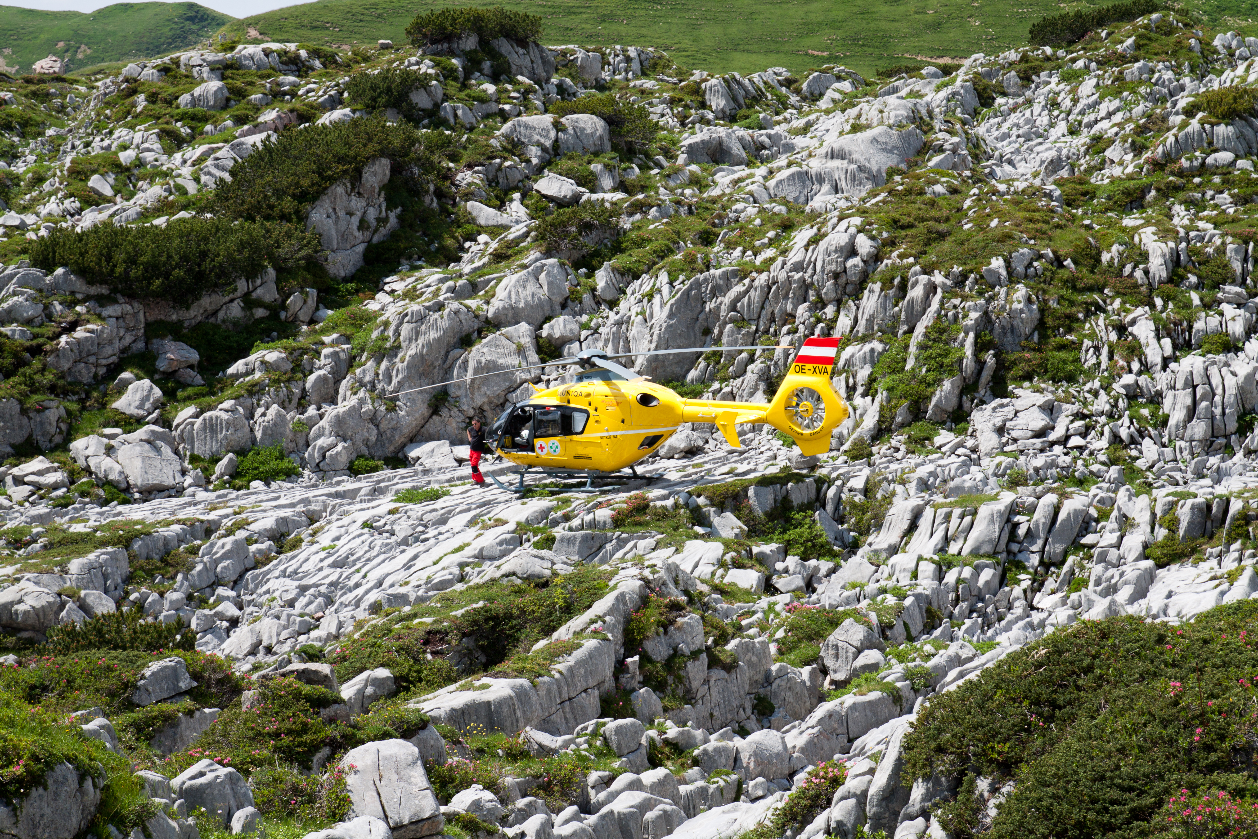 rescue helicopter "Christophorus 8"